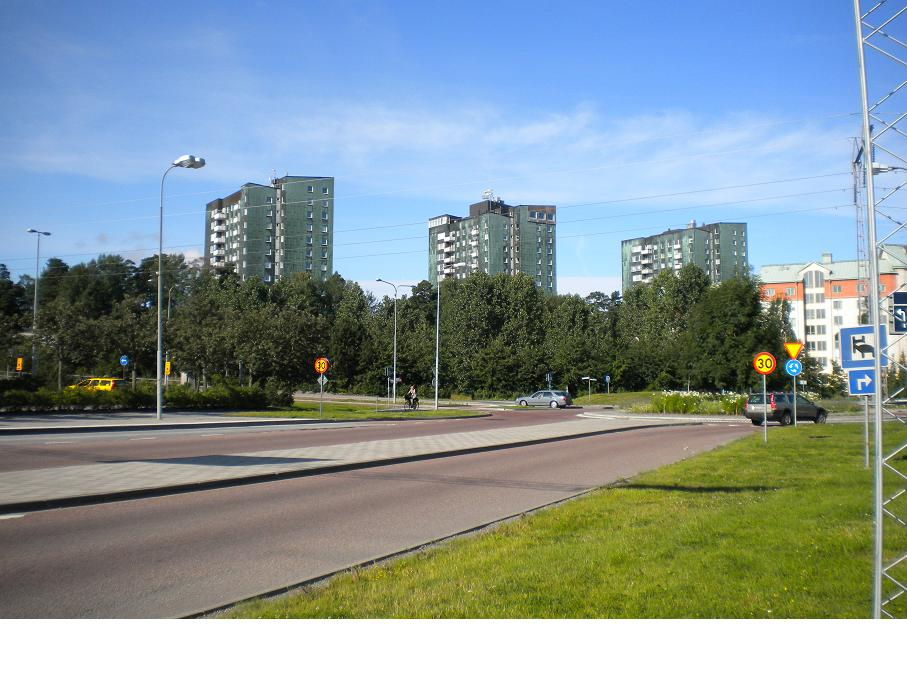 The Copper Buildings Kopparhusen, Kevinge near Mörby Centrum, Danderyd, Sweden